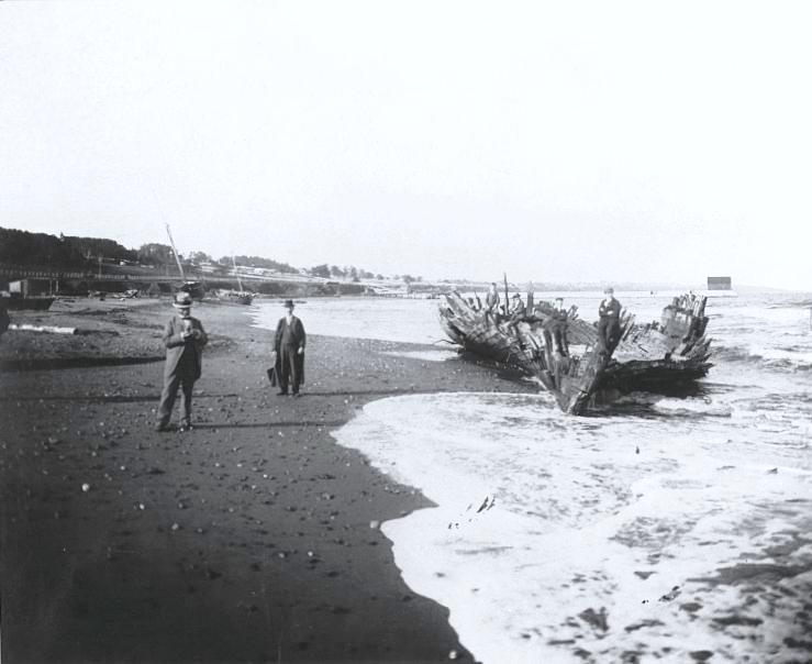 Photograph Port of New Carlisle, Gaspé, QC, about 1890, Silver salts on paper mounted on card - Albumen process - 19 x 24 cm